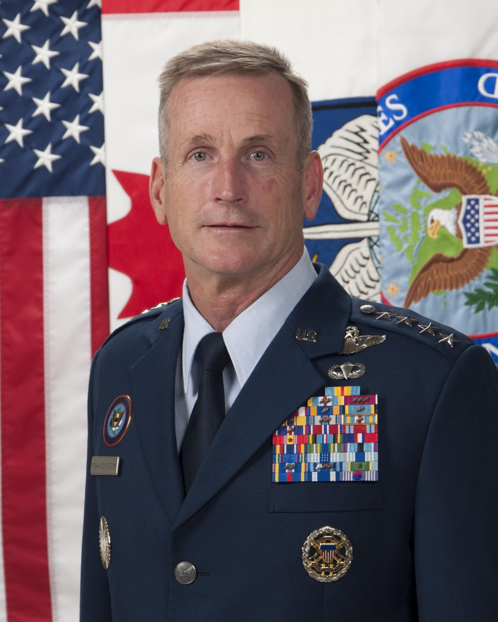 Official picture of new commander of NORAD/USNORTHCOM O'Shaughnessy